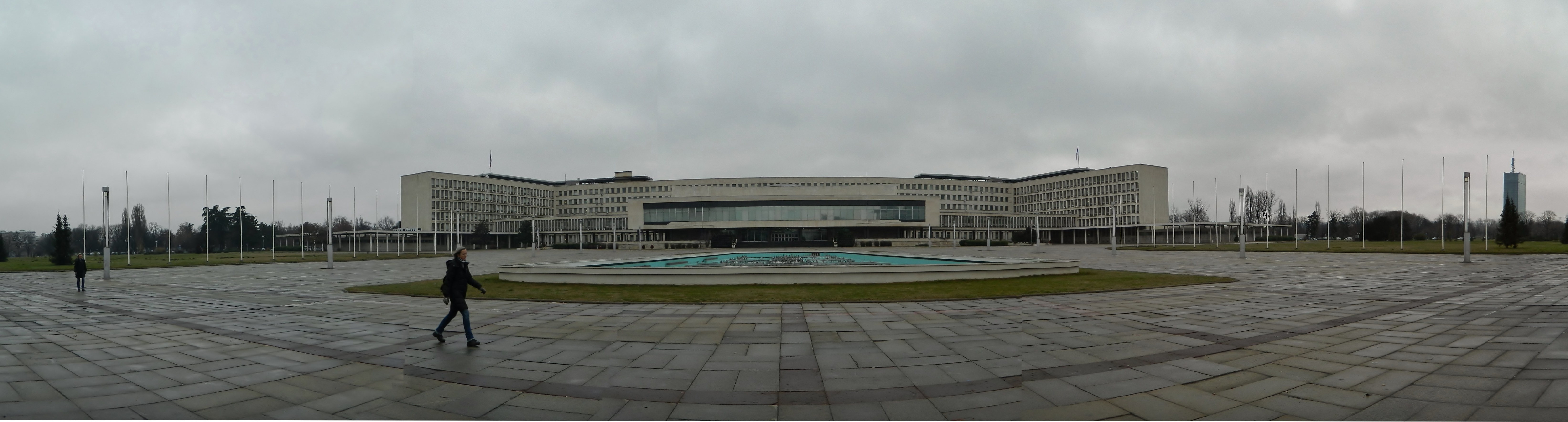 Palace of Serbia, the former Yugoslavia government headquarters, in Novi Beograd, western Belgrade, Serbia.